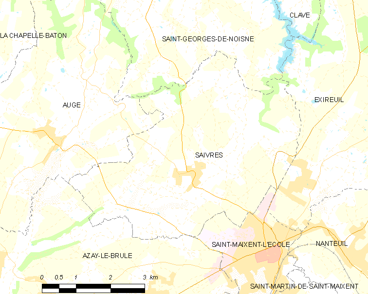 Map of French municipality Saivres